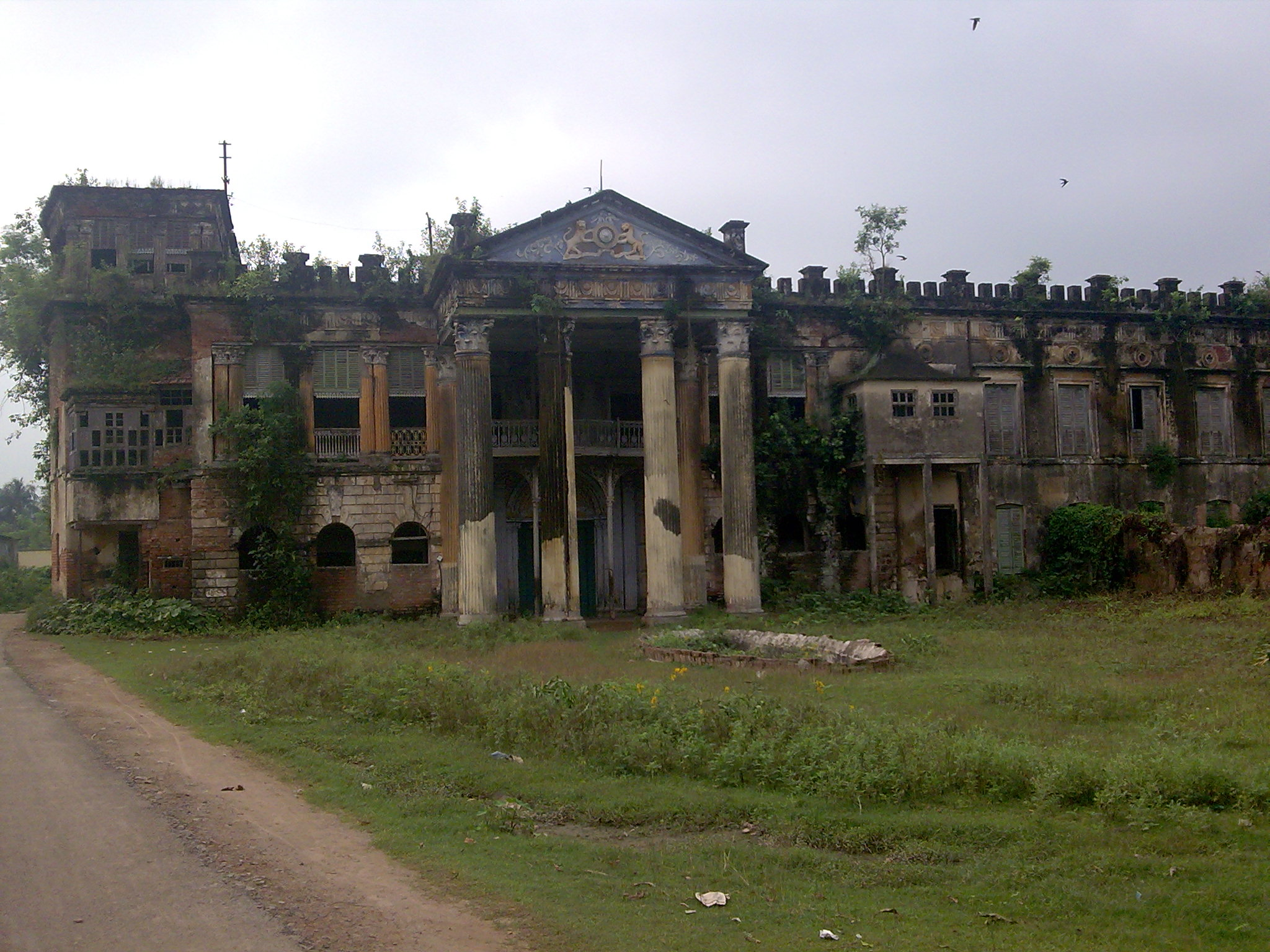 This is the old palace of cossimbazar.This palace belongs to the nandy dynasty.now it is on the verge of extinction.